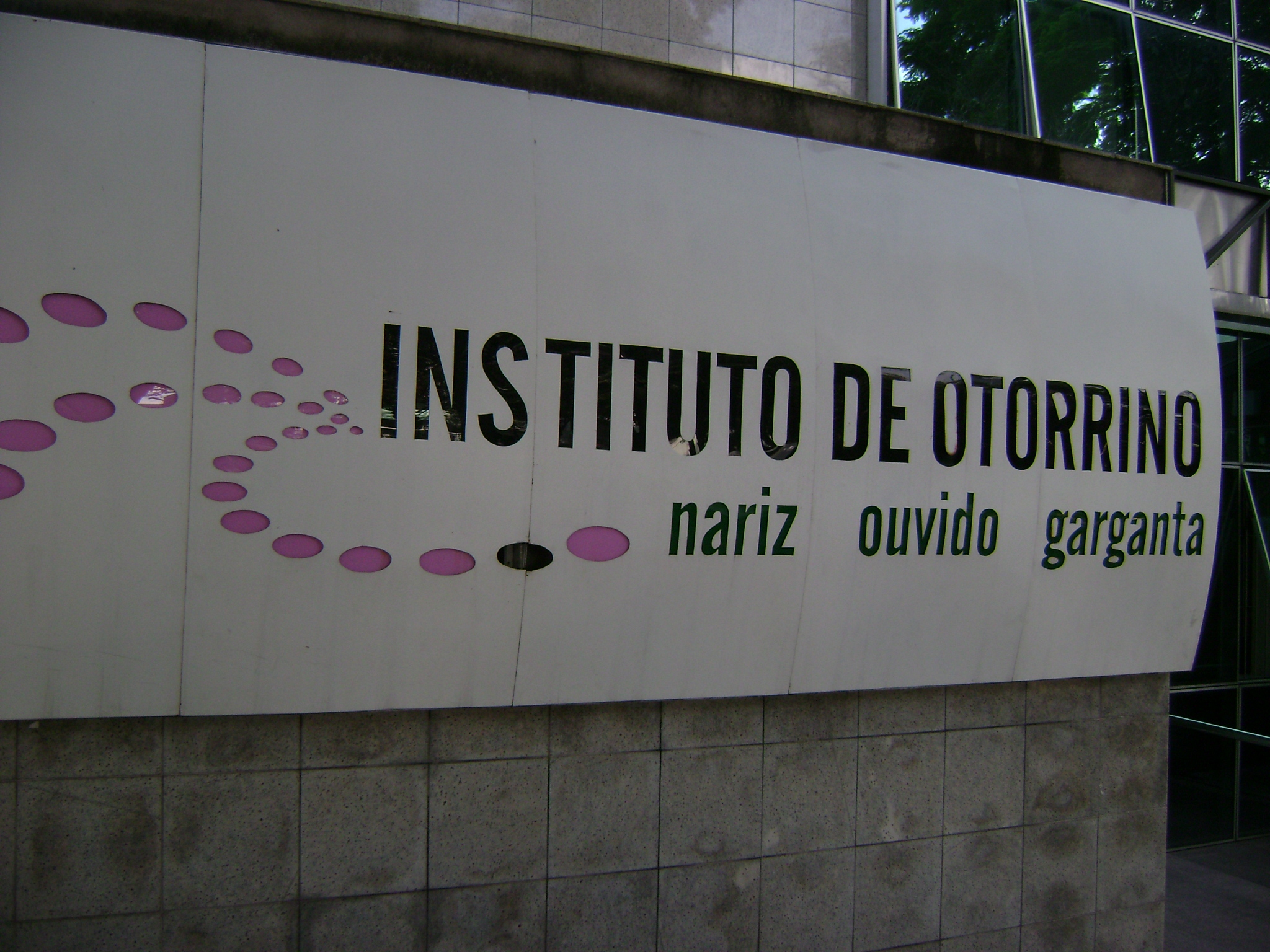 Instituto de Otorrino, in Belo Horizonte.